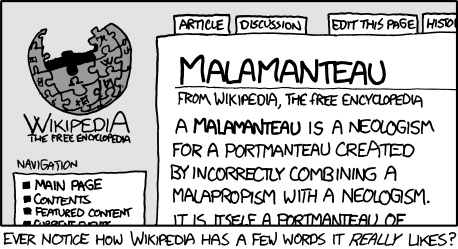 xkcd-Comic #739